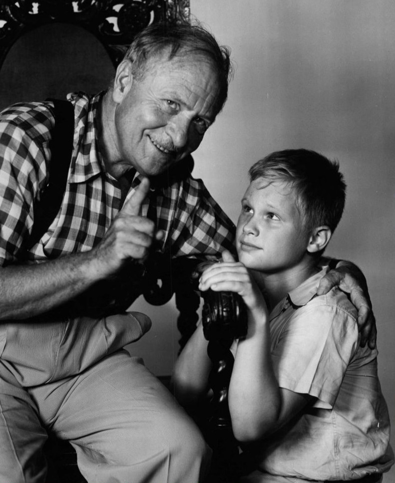 Photo of Ernest Truex as Grandpa McHummer and Brandon de Wilde as Jamison "Jamie" Francis McHummer from the television program Jamie.